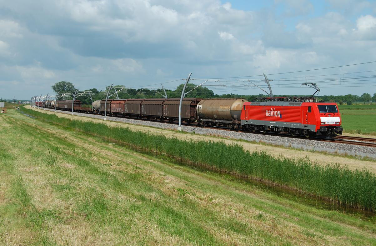 A train on the Betuweroute drawn by an electric class 189 locomotive.